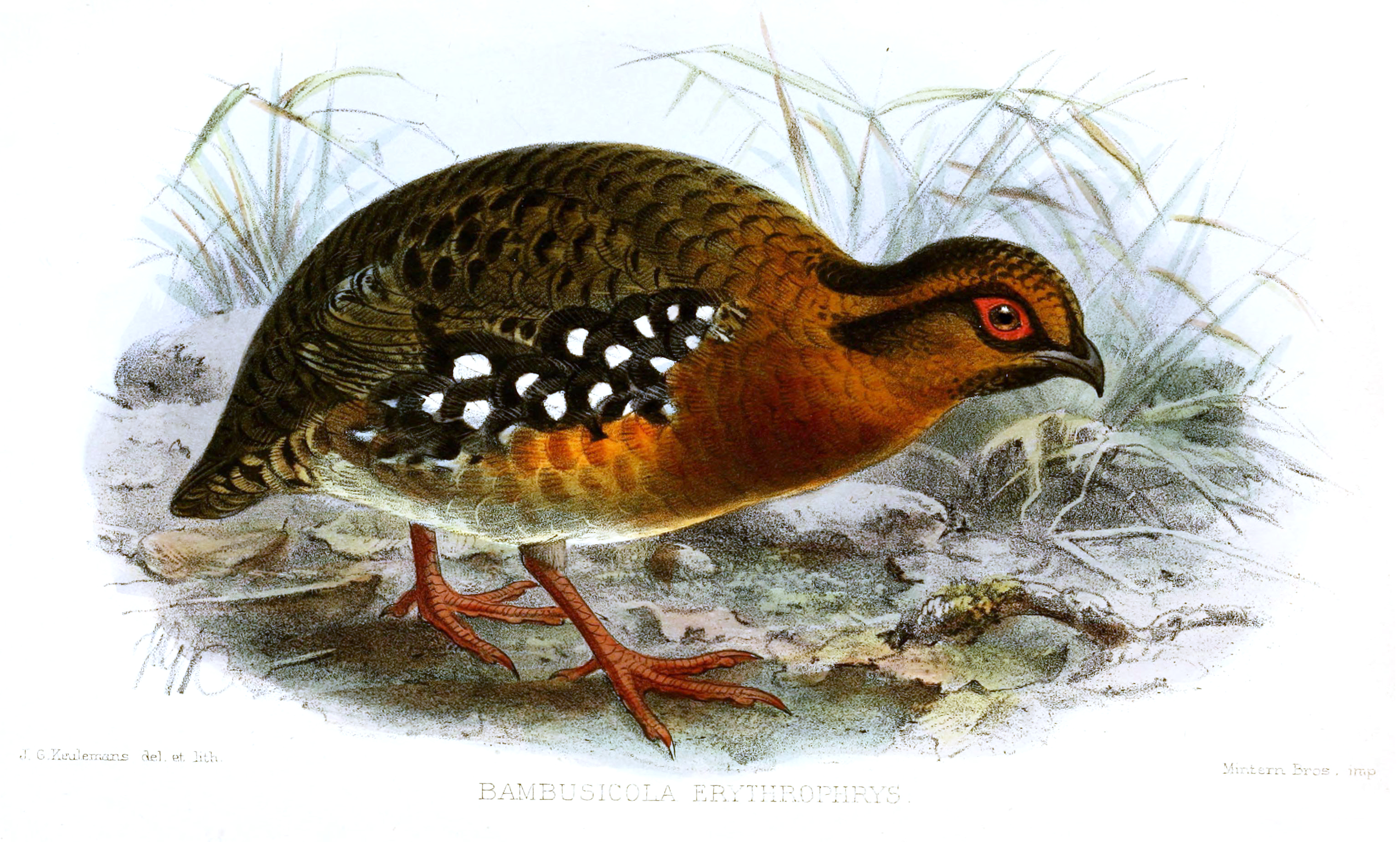 Bambusicola erythrophrys= Arborophila hyperythra